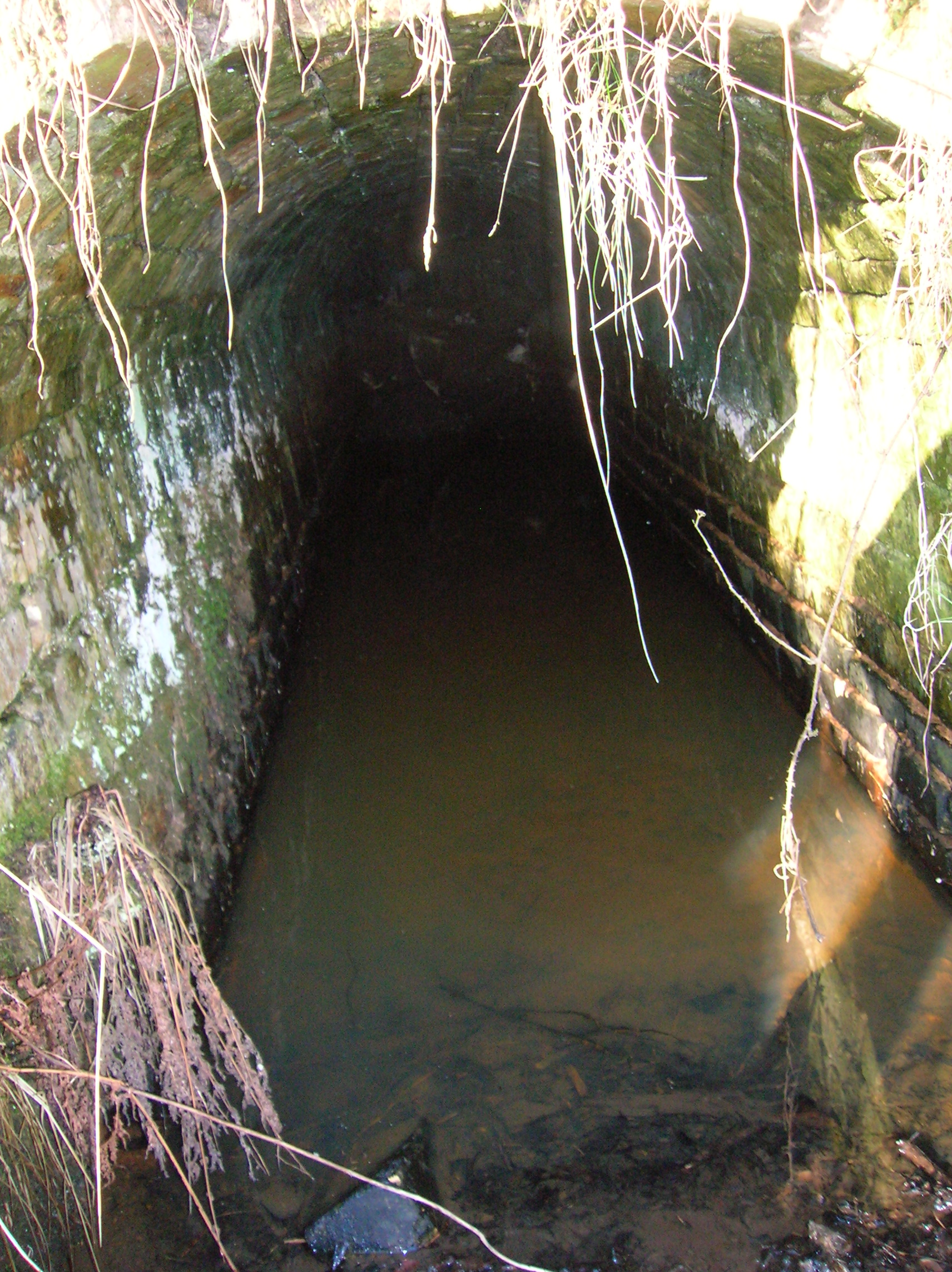 Doura Burn culvert at Fergushill colliery, Sourlie, Eglinton, Ayrshire, Scotland